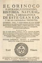 History about the orinoco rivers